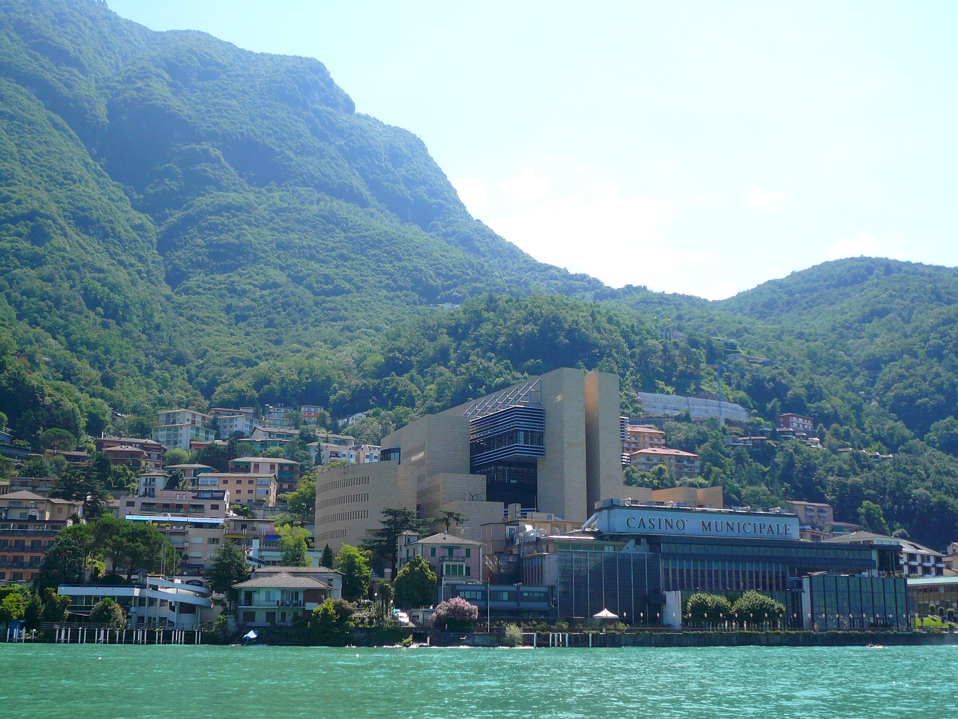 Campione (an Italian island within Switzerland)